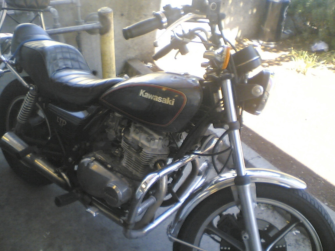 Cameraphone / my first motorcycle.